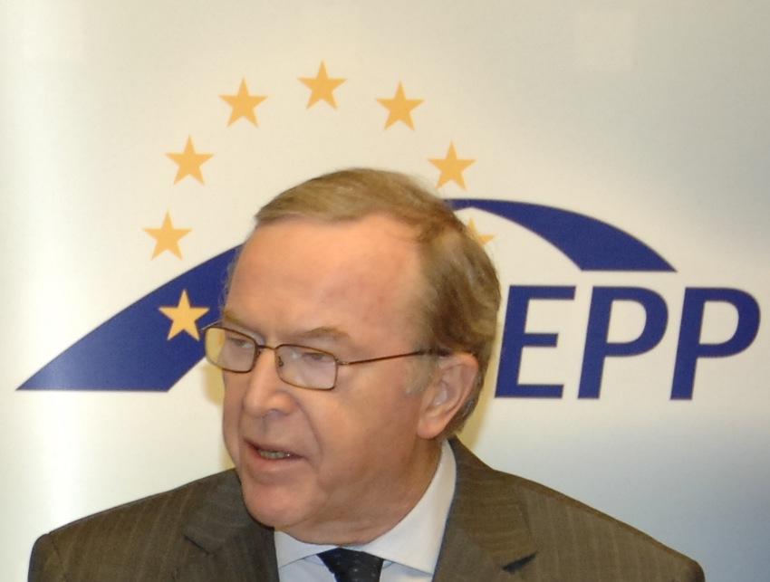 EPP Congress Warsaw - Martens, the president of the EPP